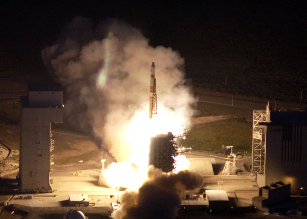 A Delta IV takes off from Space Launch Complex 6 at Vandenberg AFB, Calif., at 8:33 p.m., June 27. The Delta IV was a medium-plus configuration of the booster's five design options, which enables it to place payloads in orbit ranging from nearly 9,000 pounds to more than 27,000 pounds.